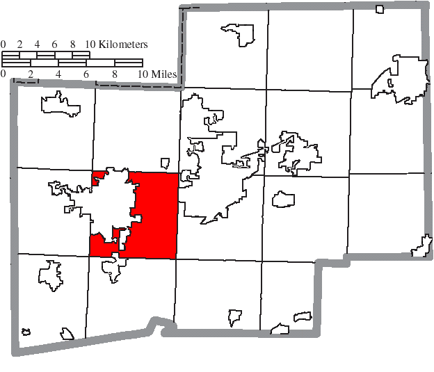 Map of the municipal and township boundaries of Stark County, Ohio, United States, as of the 2000 census, with the location of Perry Township highlighted. Township borders are shown only in unincorporated areas in order to differentiate incorporated and unincorporated areas more clearly.